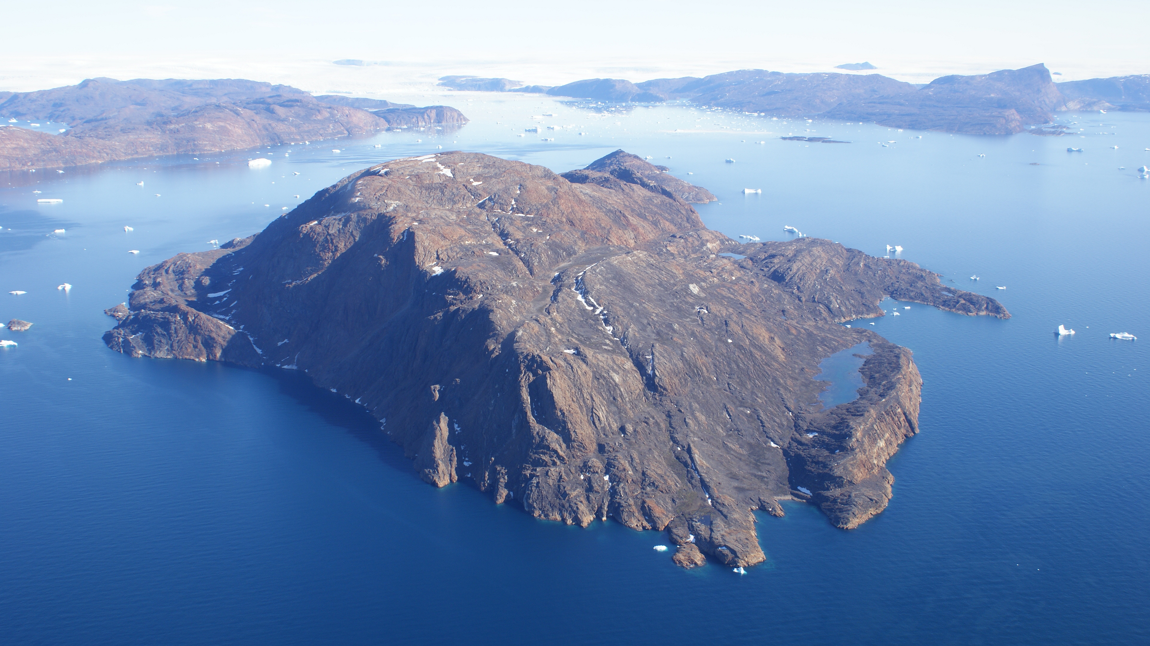 Aerial view of Inussullissuaq Island, Upernavik Archipelago, Greenland. Photographed from the Air Greenland Bell 212 during the Kullorsuaq-Nuussuaq flight.